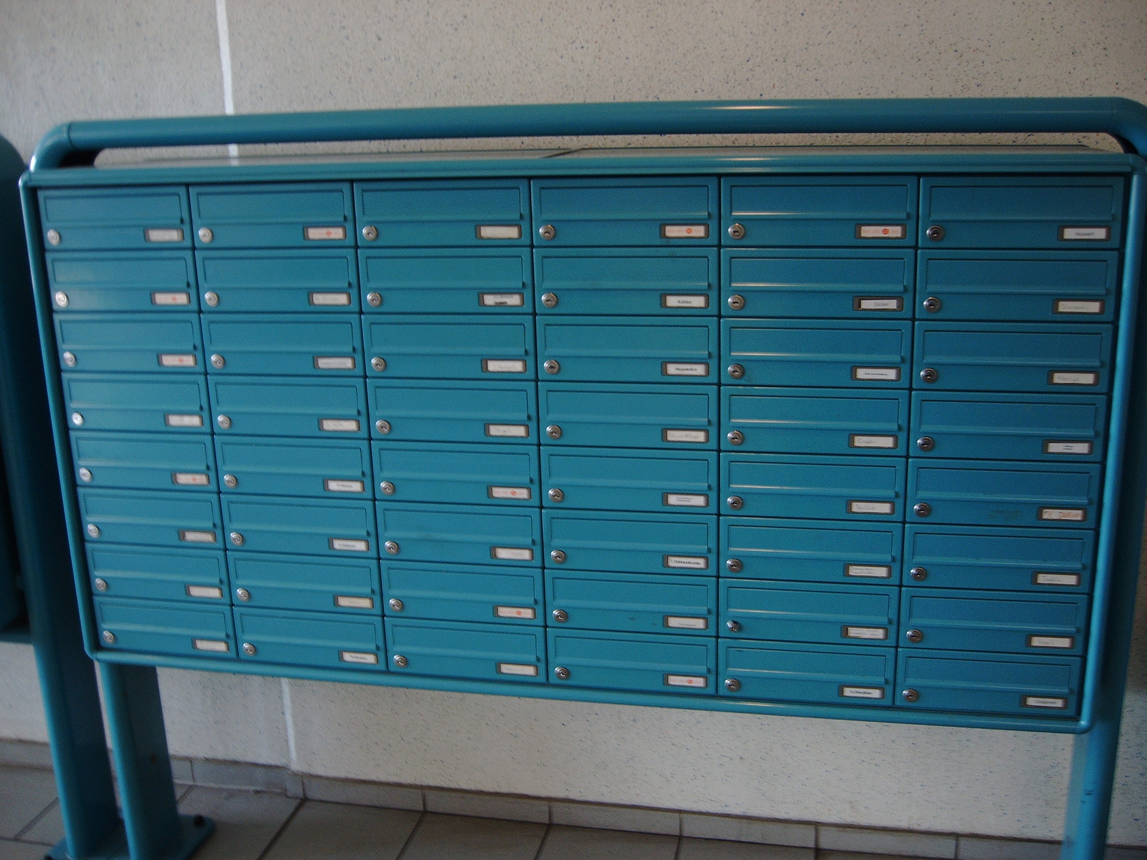 Letter boxes for incoming mail in a German multi-apartment dwelling